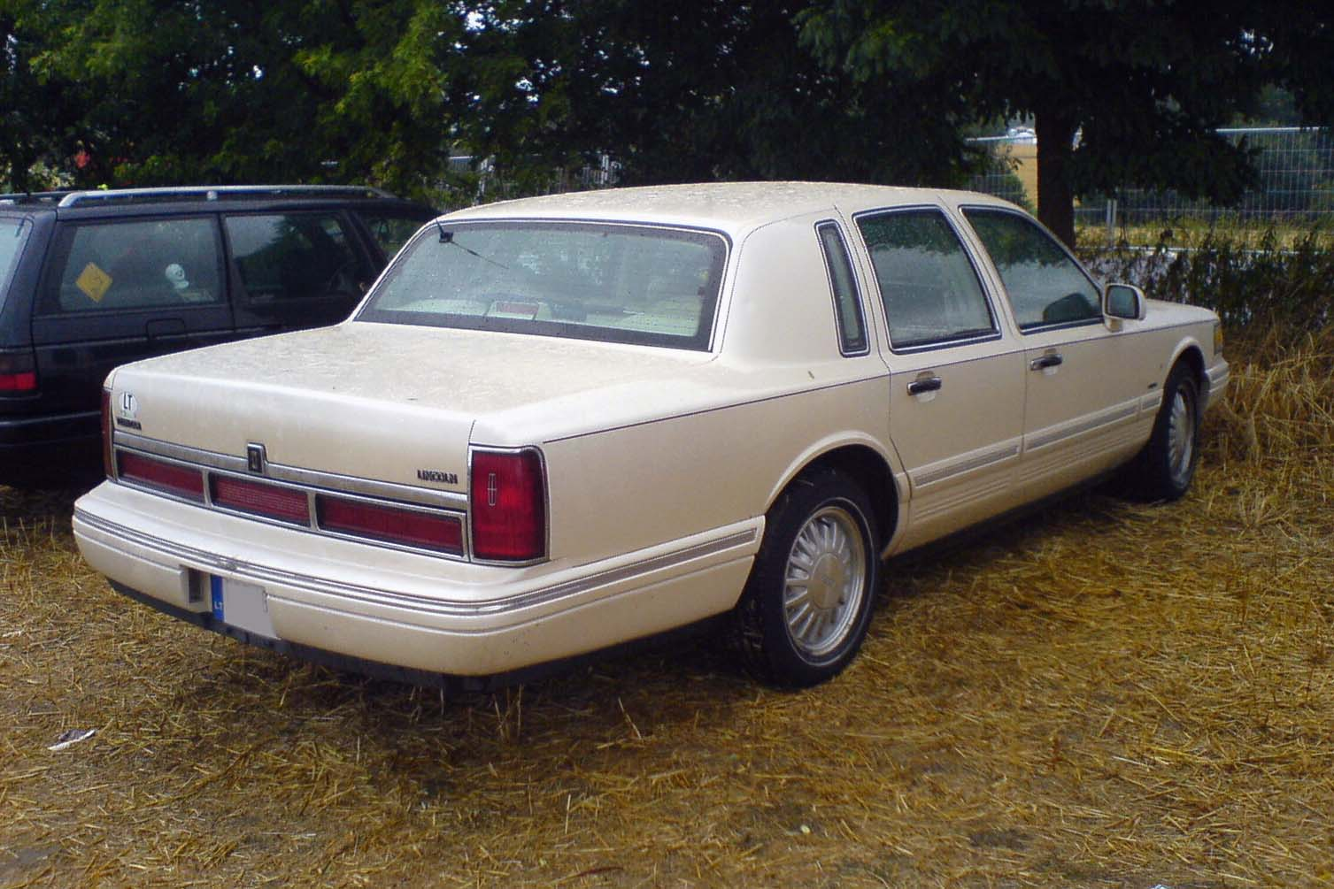 Lincoln Town Car